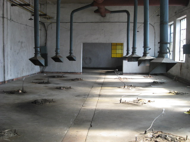 Yongbyon Nuclear Scientific Research Center, North Korea - Fuel fabrication facility, empty machine shop with exhaust ducts still in place.